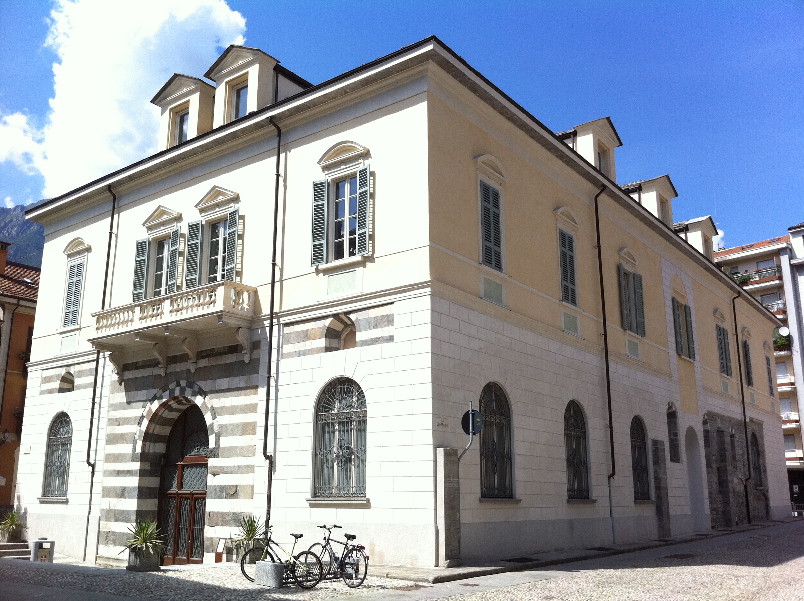 Palazzo San Francesco, Domodossola